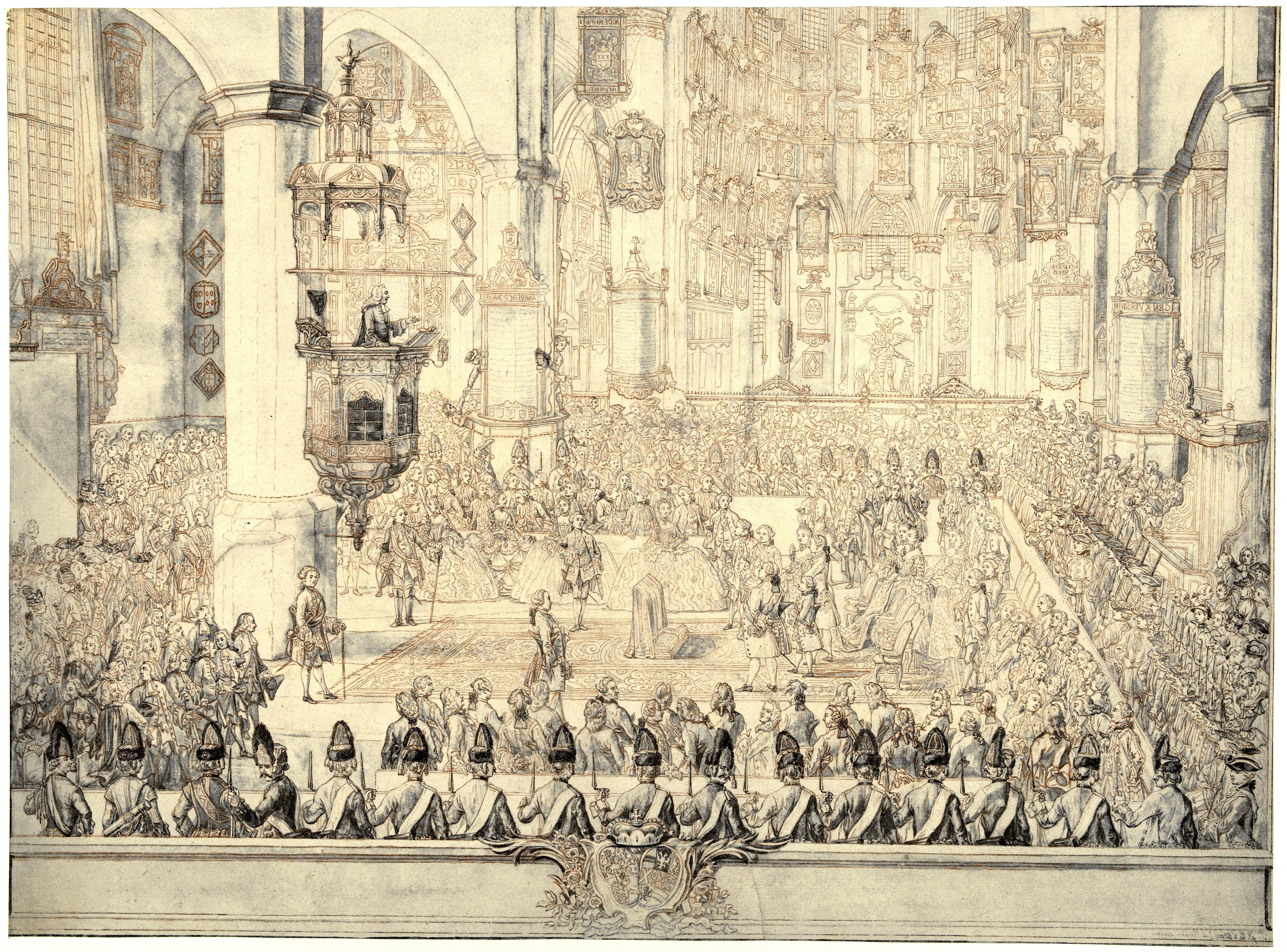 Wedding ceremony of Prince Charles Christian of Nassau-Weilburg and Princess Carolina of Orange-Nassau, 5 March 1760. Interior of the Great Church in The Hague with all the guests, the reverend speaks to the couple. Near the couple, the young Prince William V of Orange-Nassau with his guardian, the Duke of Brunswick. At the bottom the coat of arms of the couple. Design for a print.